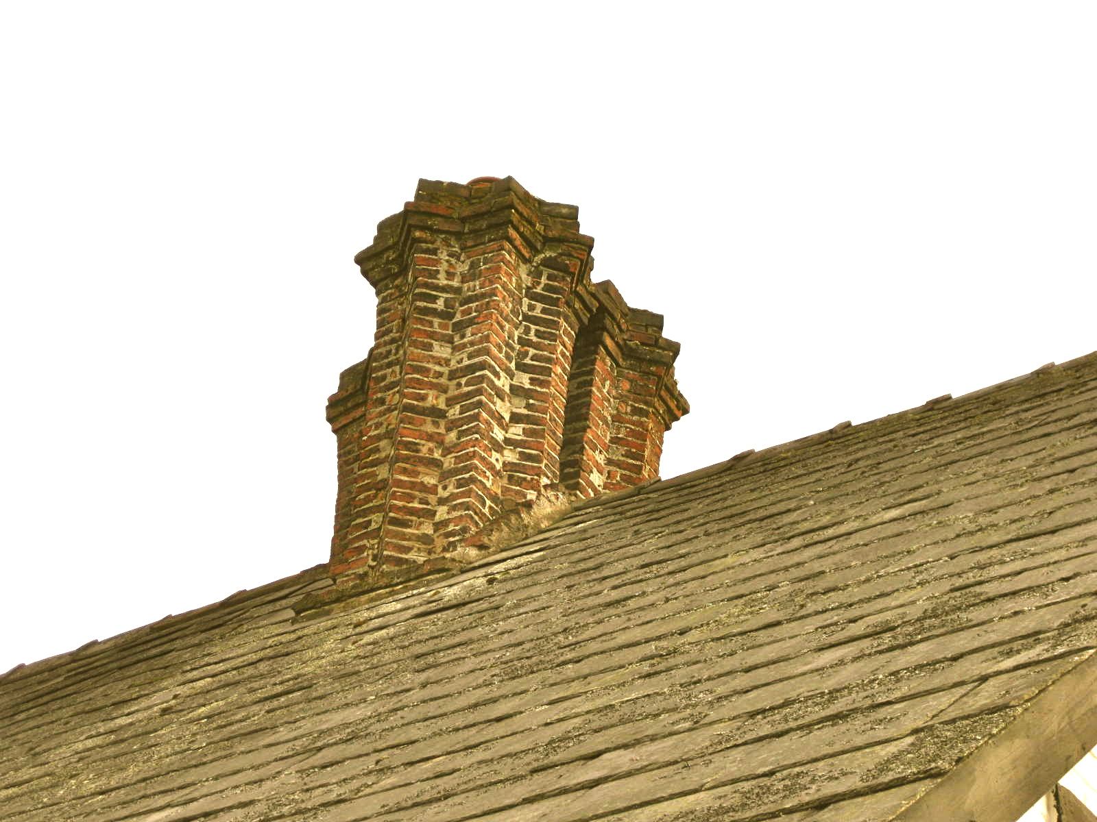 Cilthriew, Kerry, (Montgomeryshire)